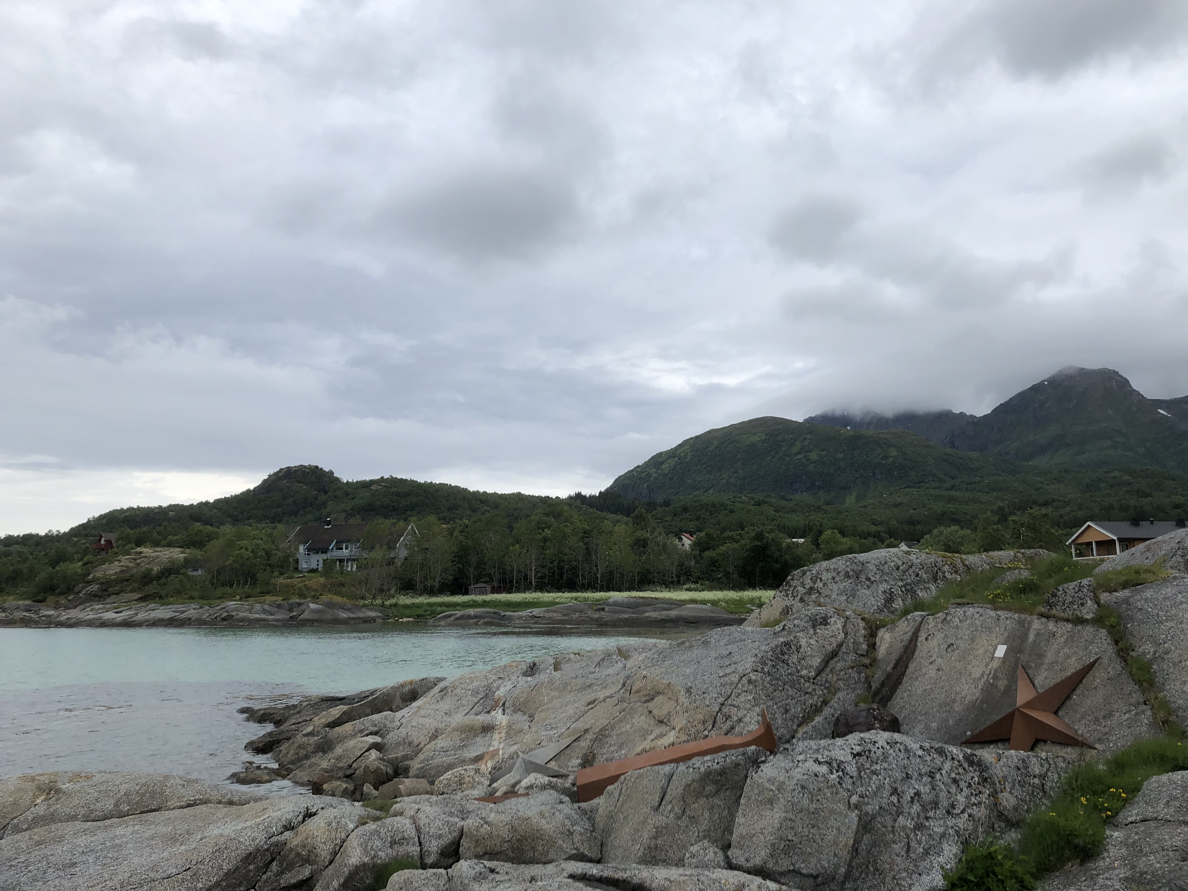 At the shore of Skutvik, Hamarøy, Nordland, Norway